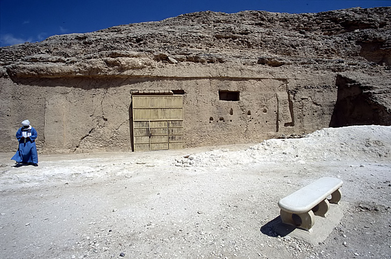 Façade of the tomb of Merire I, Tell el-Amarna, Egypt